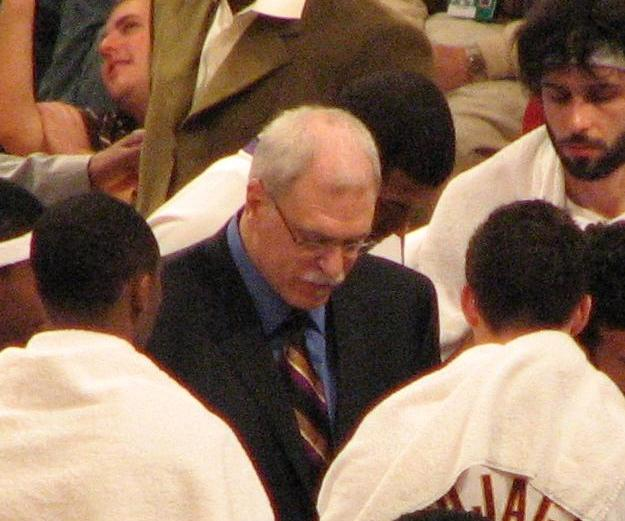 Phil Jackson (center), coach, Los Angeles Lakers